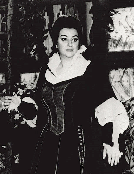 The Spanish soprano Montserrat Caballe portraited in the opera scenography dressed up with a costume. 1969.